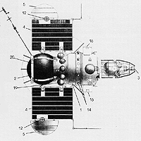 NASA